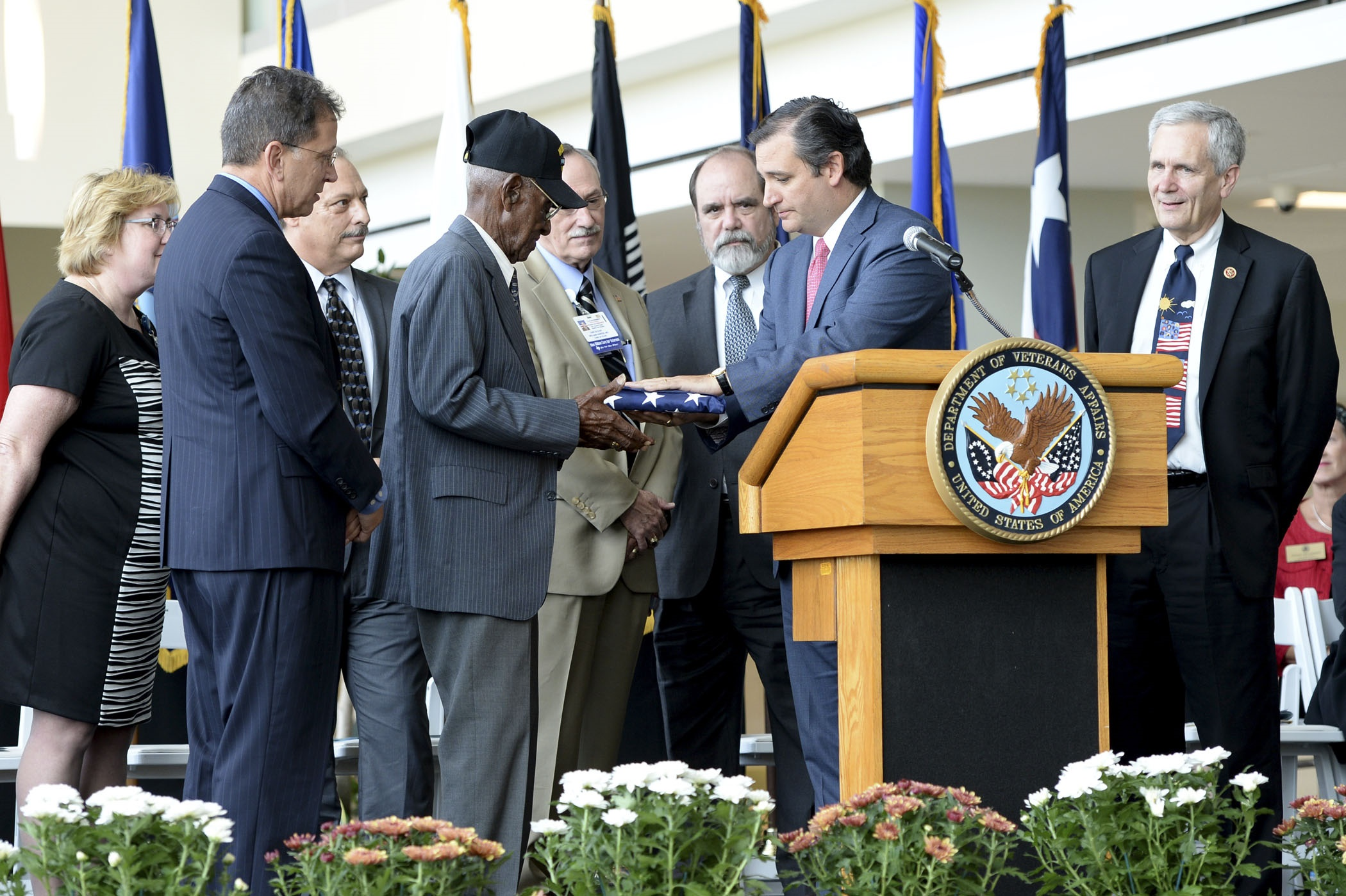 United States Senator Ted Cruz (2nd right) presents a U.S. flag to the oldest living World War II Veteran Richard Overton during the grand opening ceremony for the Austin Outpatient Clinic in Austin, TX, on Thursday, August 22, 2013. VA Photo by Brian Gavin.